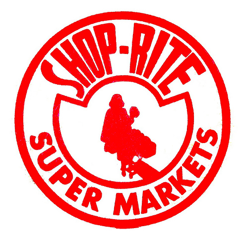 Former logo of ShopRite, 1951 to 1973.